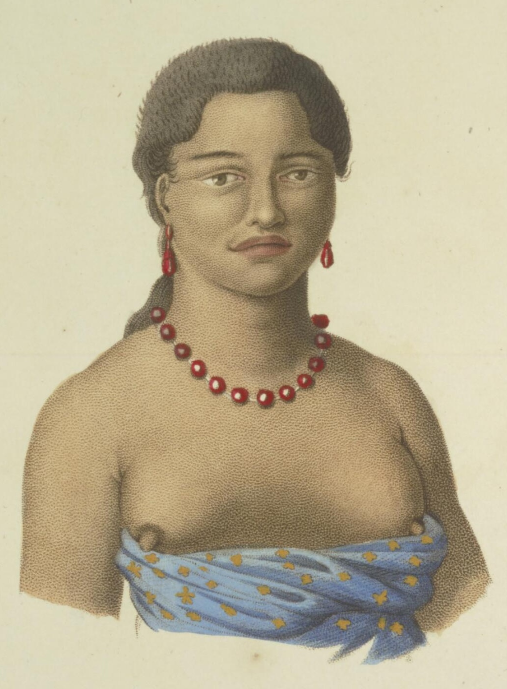 Îles Sandwich. 3. Rikériki, femme du chef Kraïmokou, by Alphonse Pellion. A print from Pl. no. 83 of: Voyage autour du Monde, 1817-1820, by Louis Claude Desaulses de Freycinet (1779-1842).